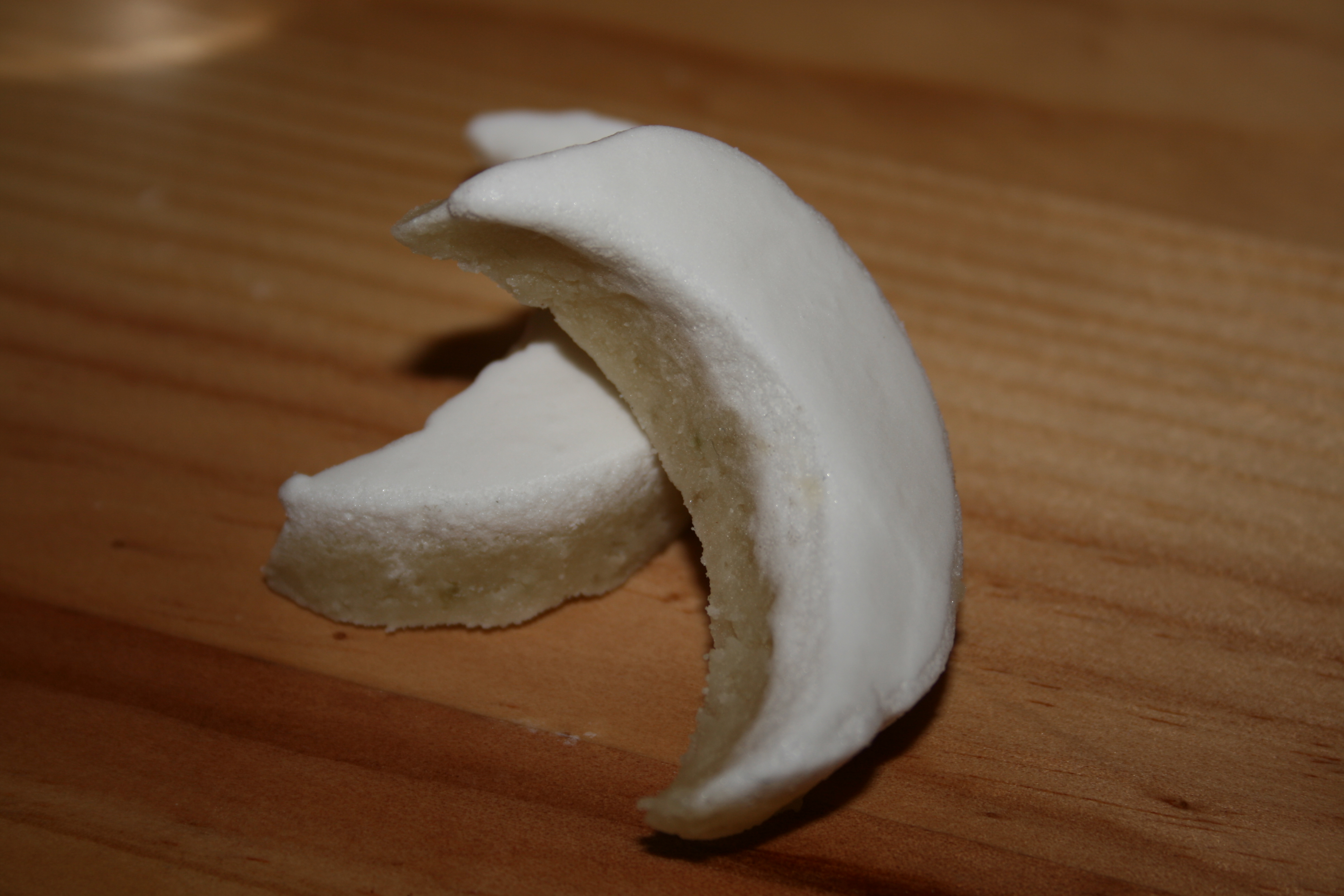 This picture shows the traditional Bavarian (German) cookie cedernbrot / zedernbrot. It is related to Zimtsterne (cinnamon stars).